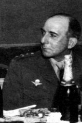 Group photograph cropped on General de Lattre